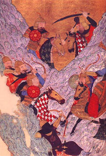 Mongol_cavalry vs the Jin army in the mountains